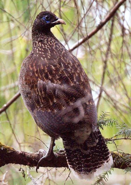 Female Sclater Monal shot in East Arunachal Pradesh Himalayas